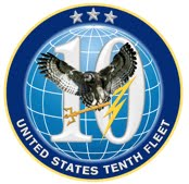 10th Fleet